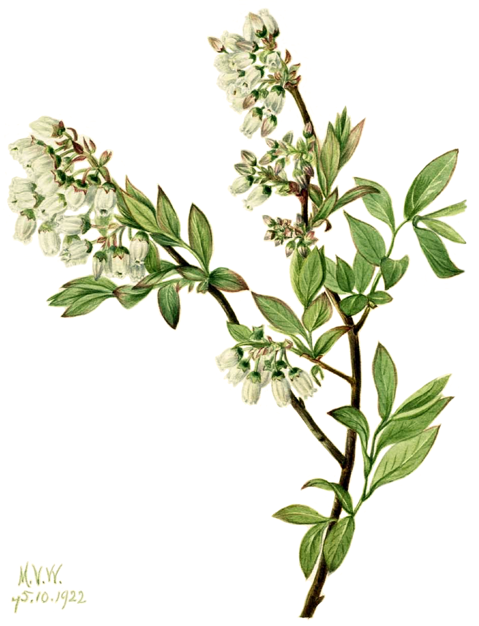 Vaccinium corymbosum (Highbush Blueberry) by Mary Vaux Walcott, 1922